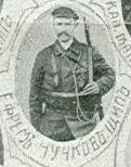 Portrait of IMARO member Efrem Chuchkov from Shtip